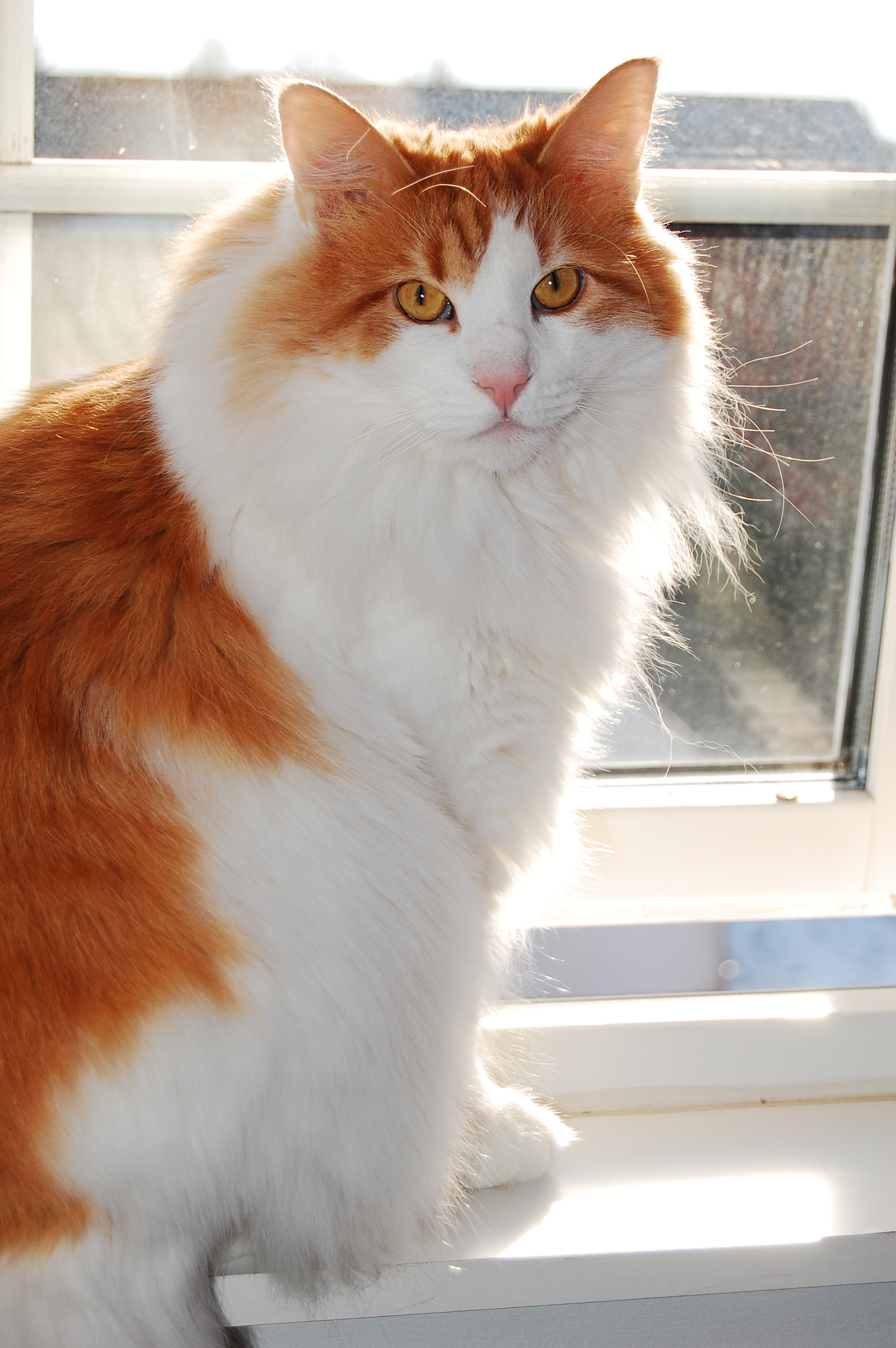 My cat Santana